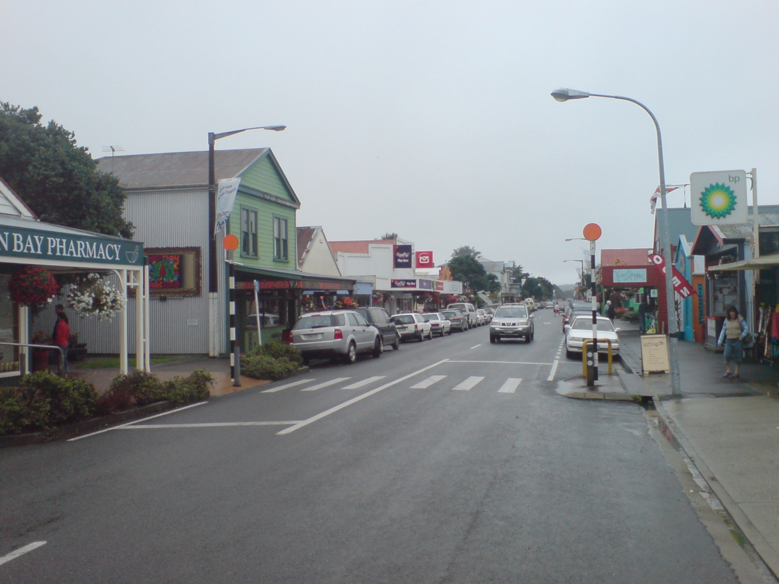 Takaka in Golden Bay, New Zealand. Looking north along the main street (Commercial Street).